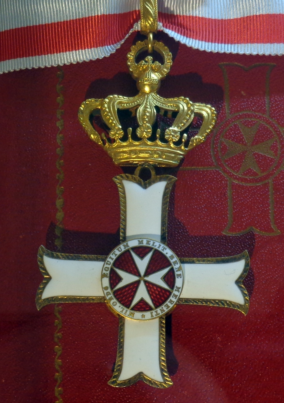 Order of Merit pro Merito Melitensi, badge of Grand Officer, c.1930. Order of Malta. The exhibition of the Tallinn Museum of Orders of Knighthood, Estonia.